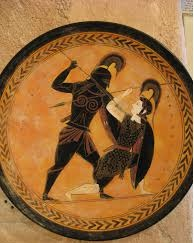 Penthesilea brought her Amazon warriors to help the Trojans defend their city, but was killed in combat with Achilles, the greatest of the Greek warriors. The scene on this vase shows Achilles looming above her as she sinks to the ground. Achilles's face is masked and protected by his helmet; Penthesilea's helmet is pushed back to expose her features and emphasize her vulnerability at this vital moment. Her spear passes harmlessly across Achilles's chest, while his pierces her throat and blood spurts out. According to a later version of the story, at this very moment the eyes of the two warriors met and they fell, too late, in love.